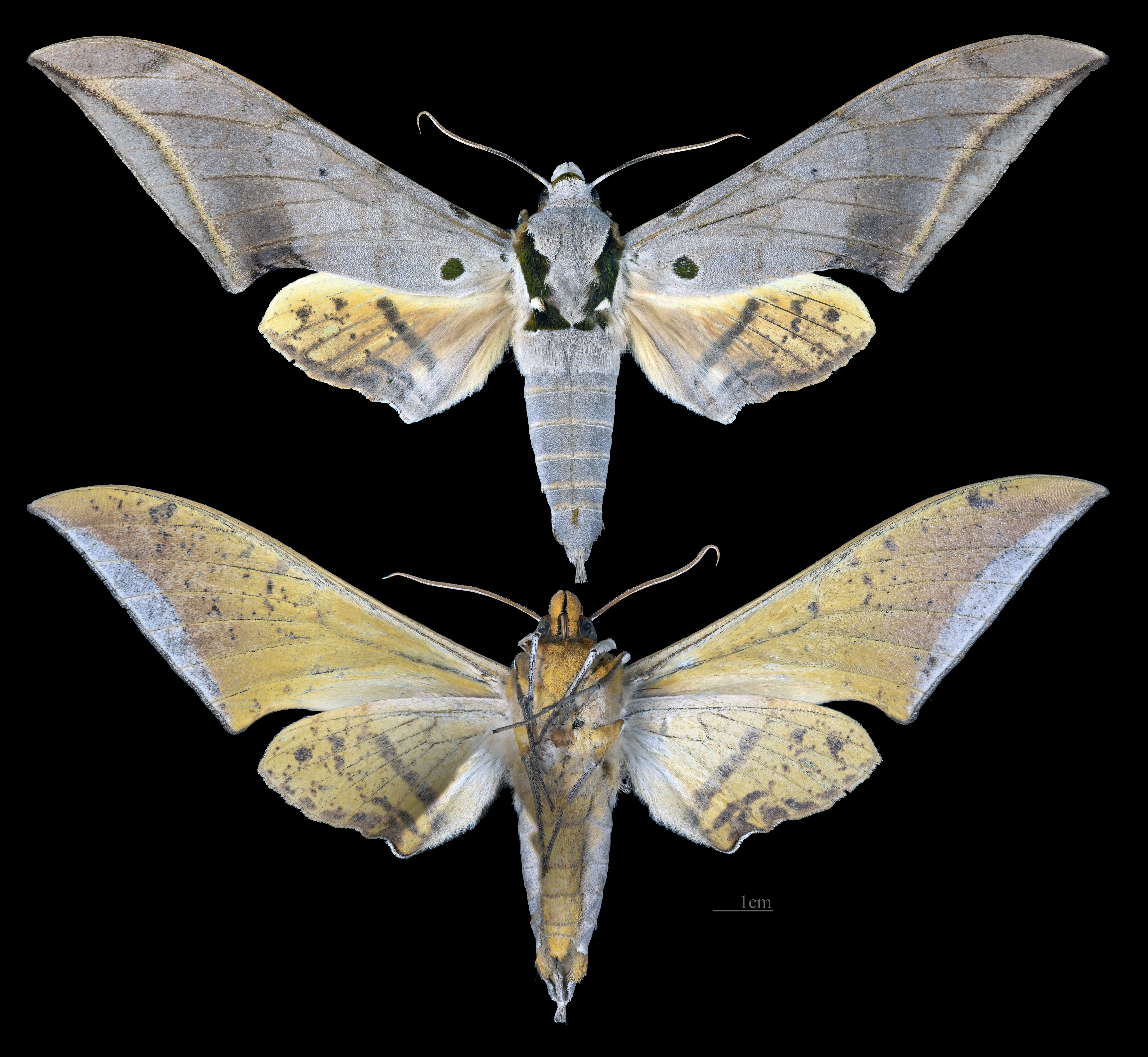 Ambulyx placida - Two views of same specimen Collection of the Mathematician Laurent Schwartz